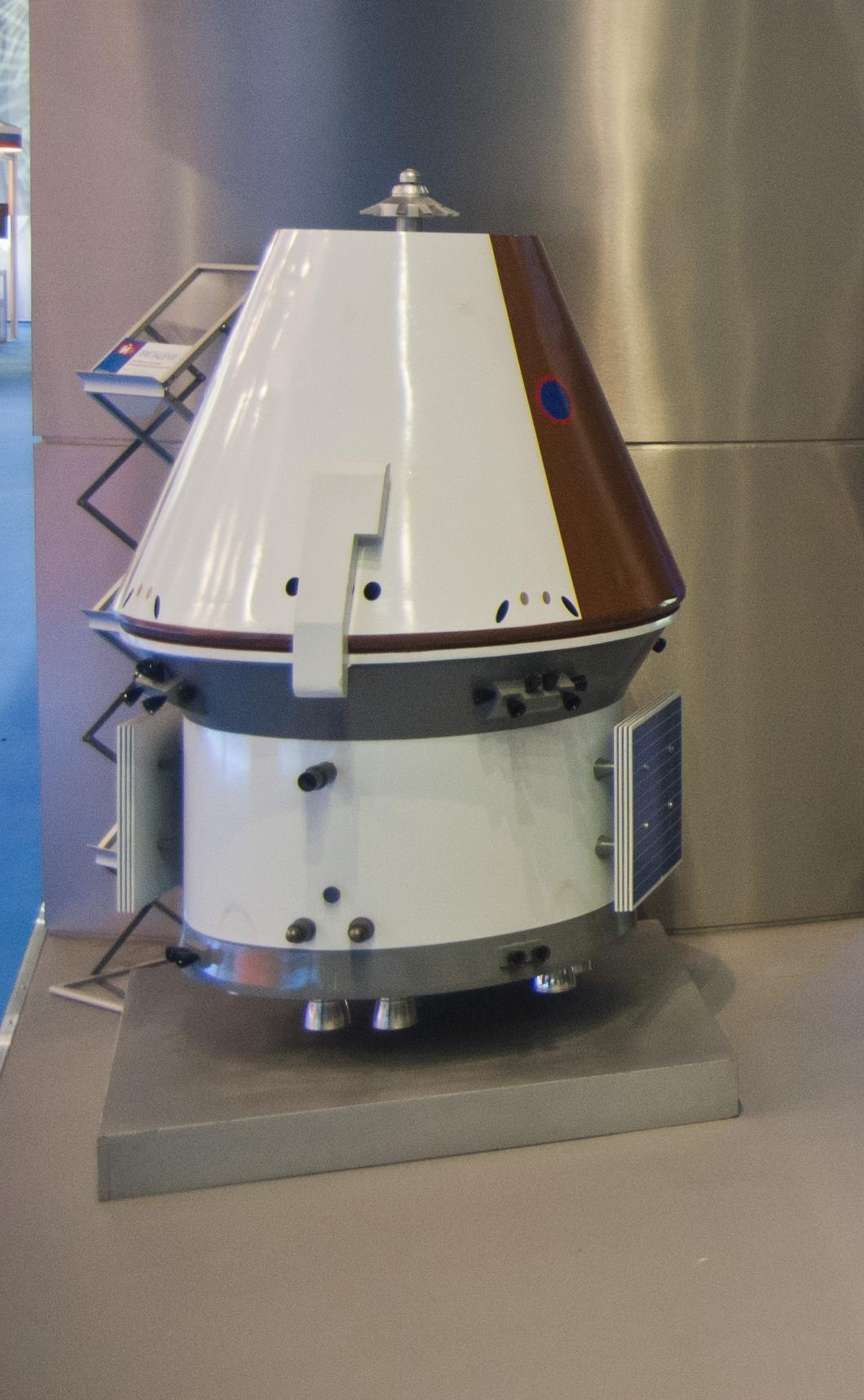 Excerpt of image:Human Space Systems.jpg, a PPTS mockup.